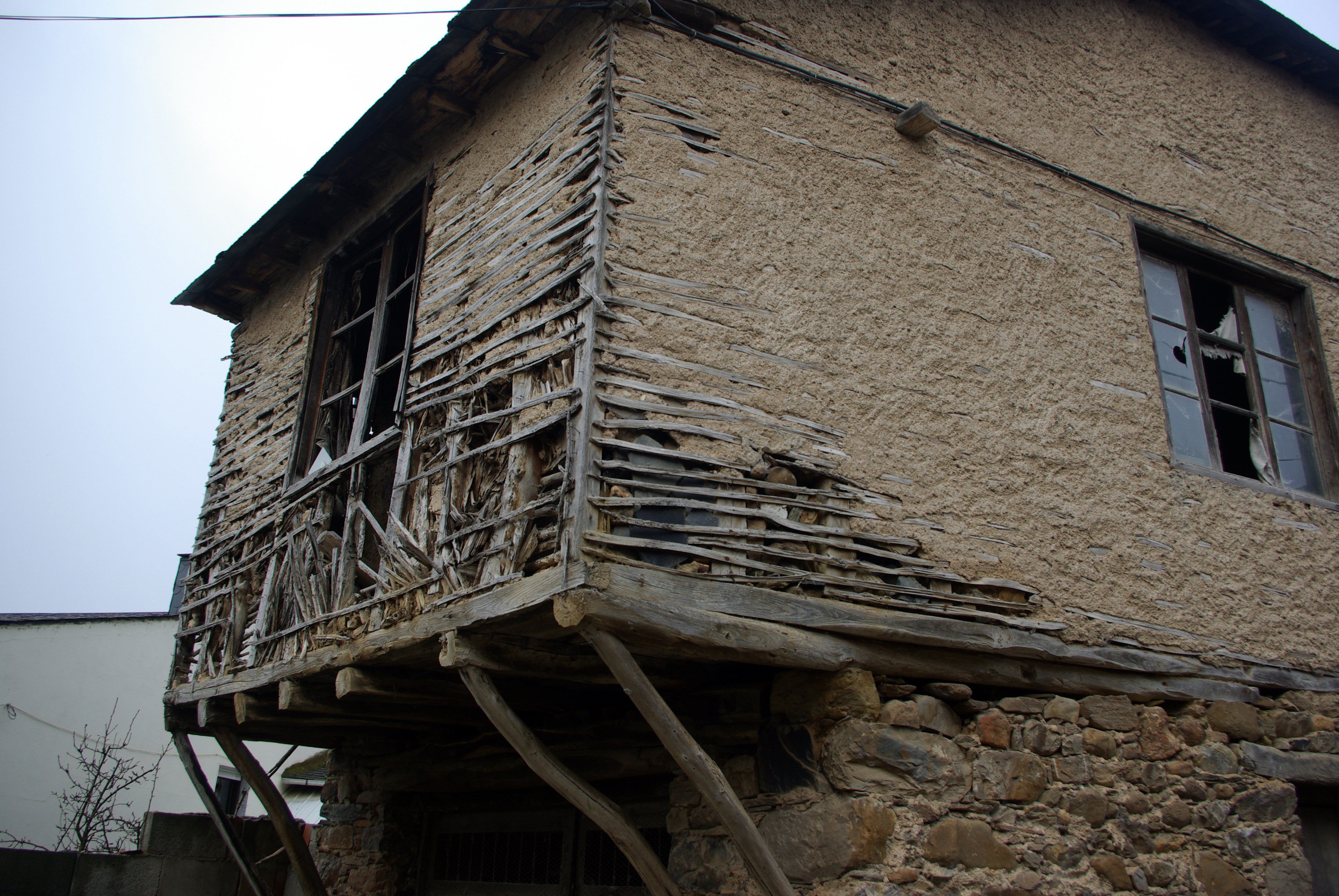 House in Las Médulas village, Carucedo (León, Spain)